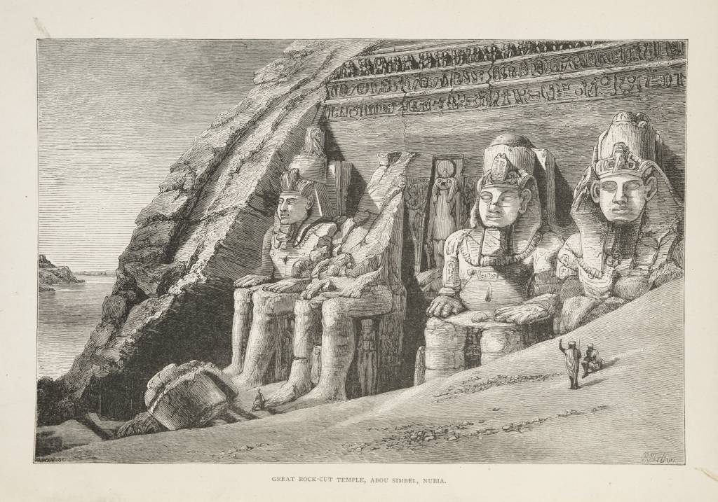 Two men in the foreground of four large, seated statues.